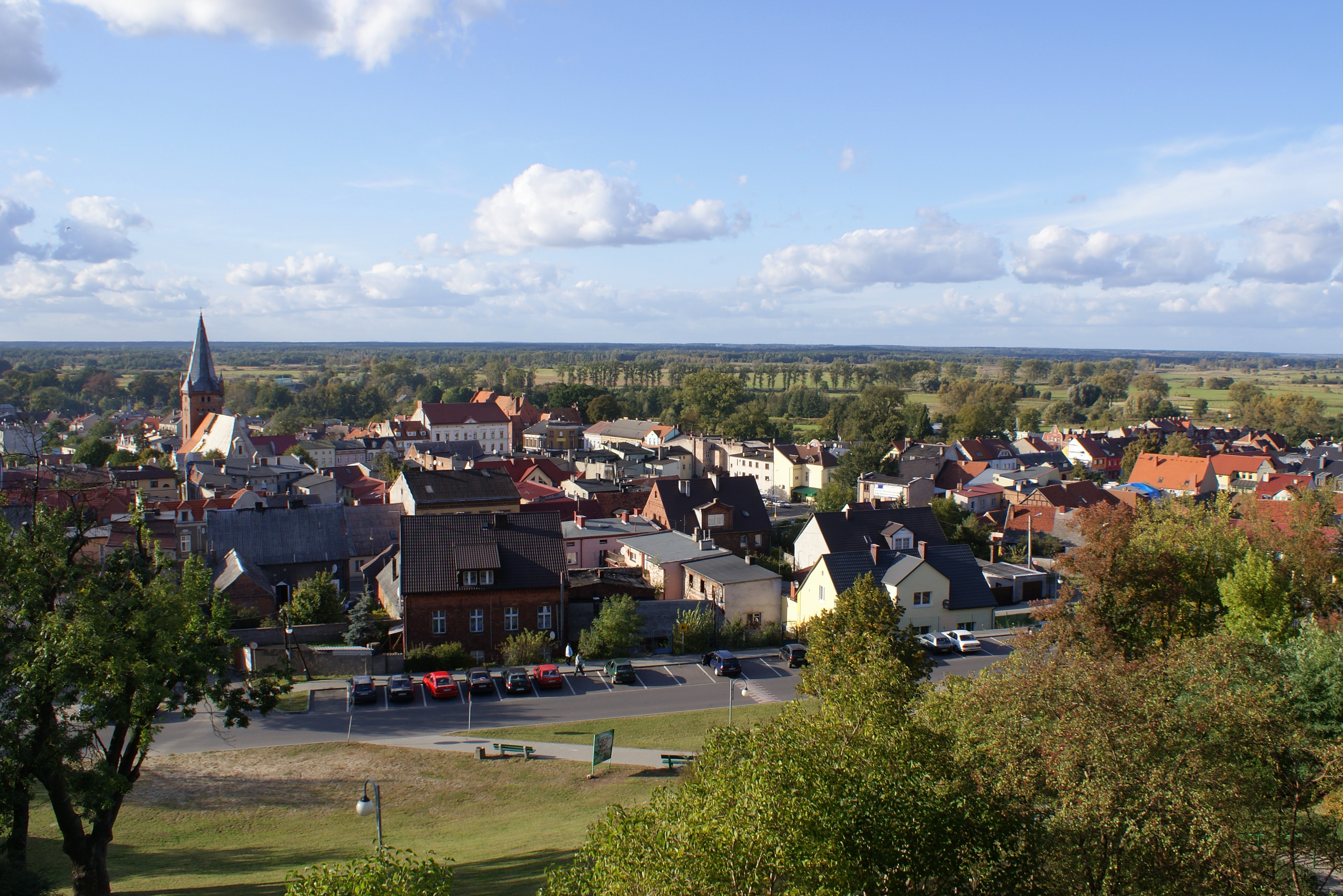 Czarnków downtown from the hill